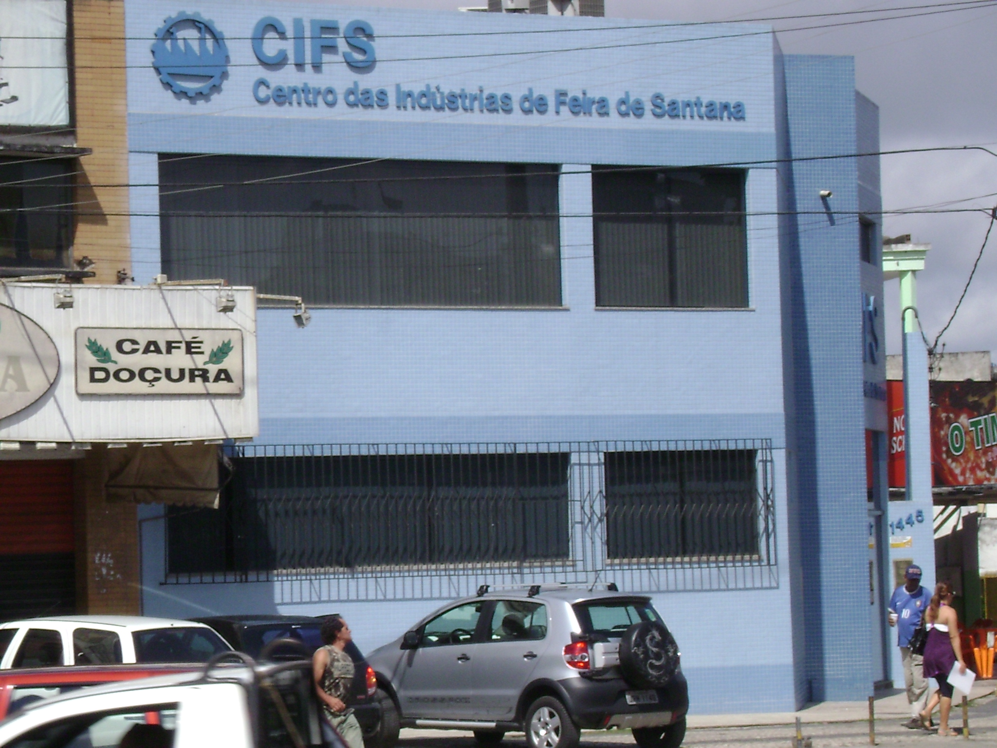 Centro das Indústrias de Feira de Santana (CIFS).